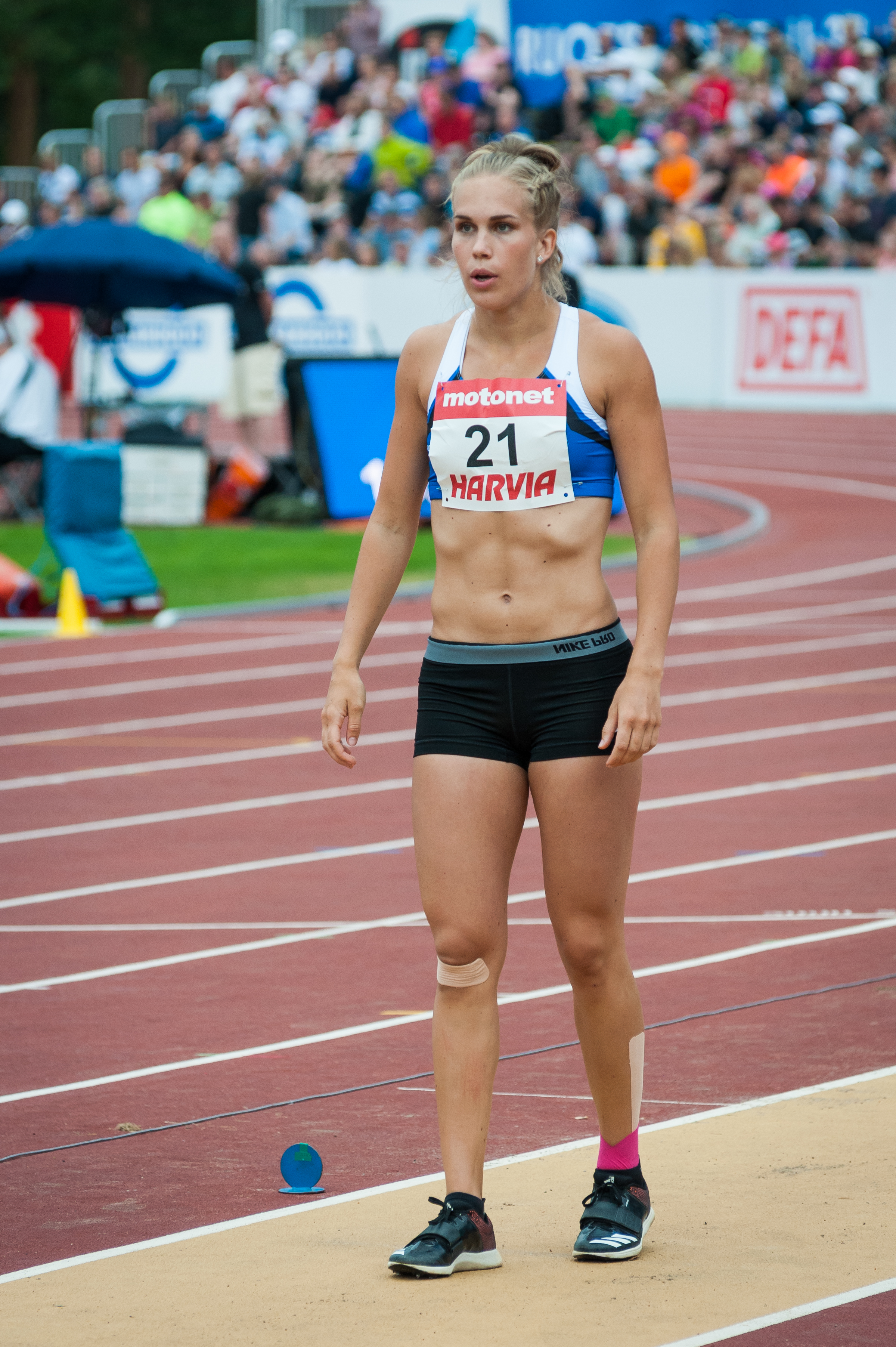 Women's triple jump competition at the 2018 Kalevan Kisat, the Finnish championships in athletics, in Jyväskylä, Finland.